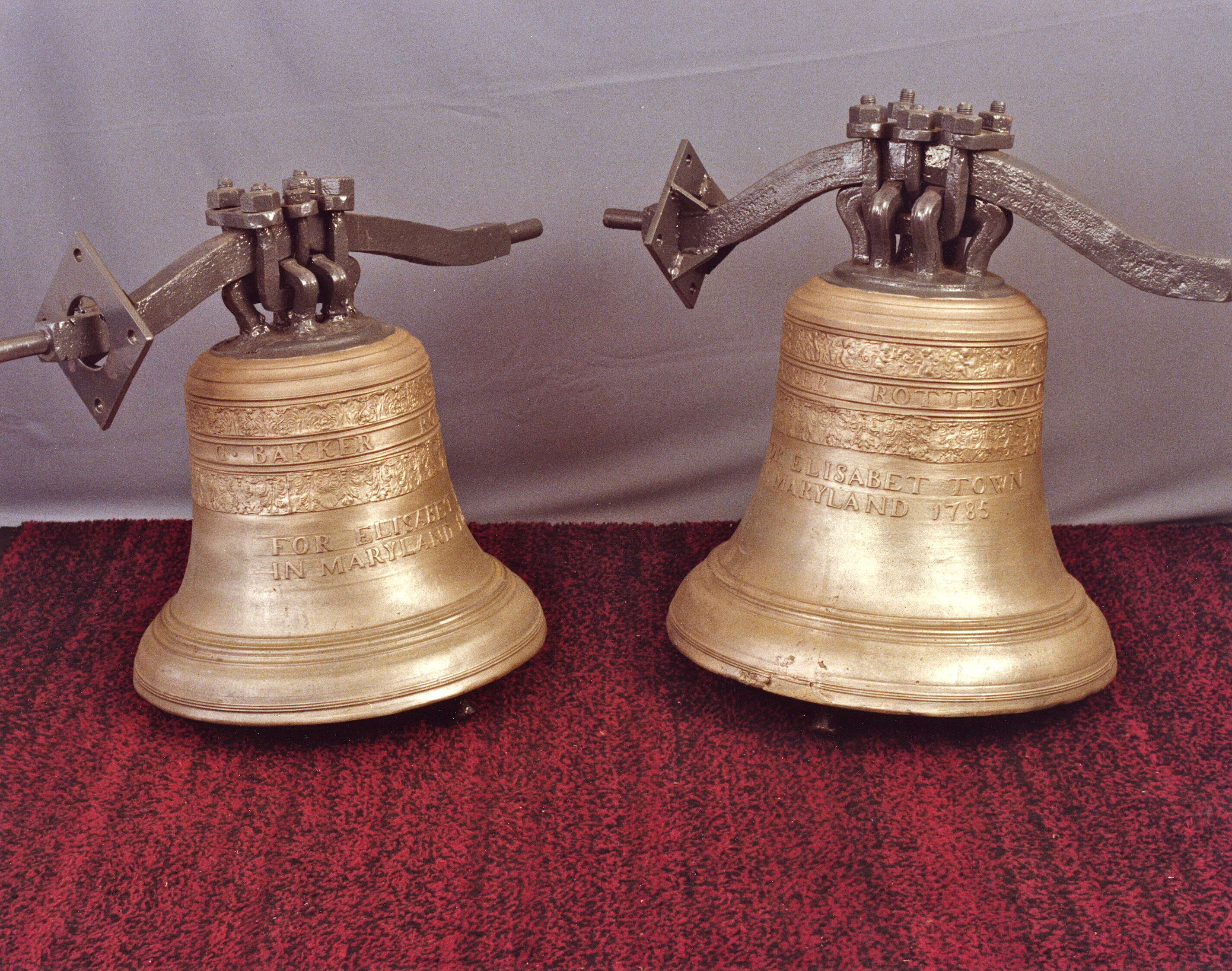 Zion's Church Bells when they were taken down for cleaning and restoration in 2002.